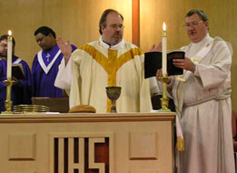 Dr. Gregory S. Neal, UM Elder, presides at the Eucharist.